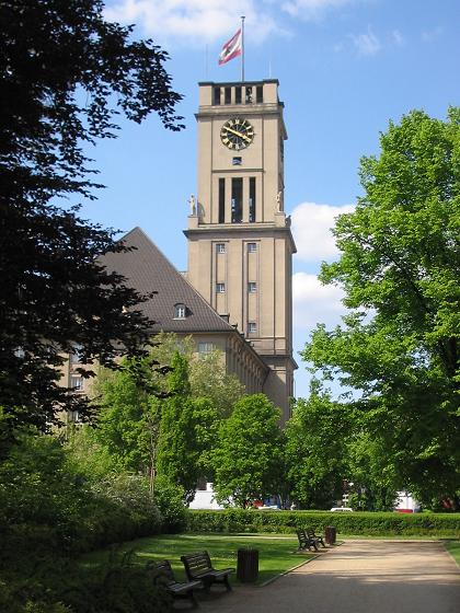 The townhall of Berlin-Schönberg at the end of the "Rudolph-Wilde-Park"